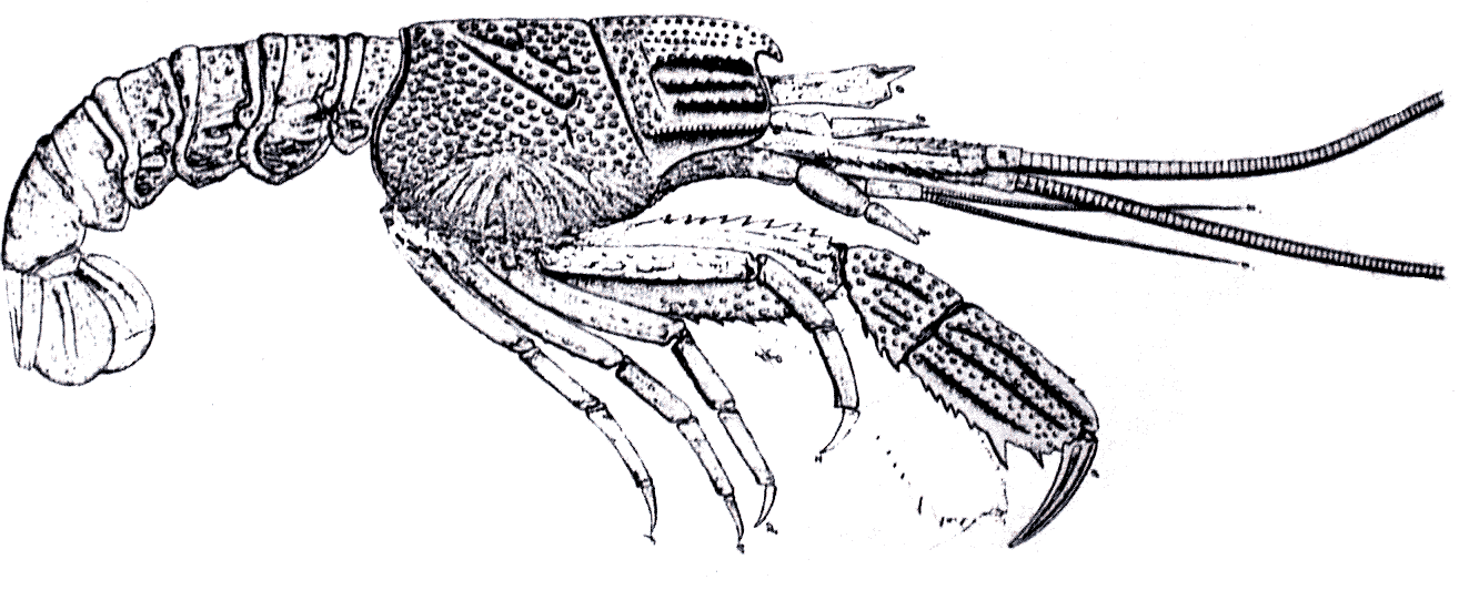 Diagram of Glyphea pseudastacus, a fossil glypheoid lobster from the Jurassic of Bavaria. From plate 19 of Prof. Dr. Albert Oppel's "Ueber jurassische Crustaceen" (1860-2).